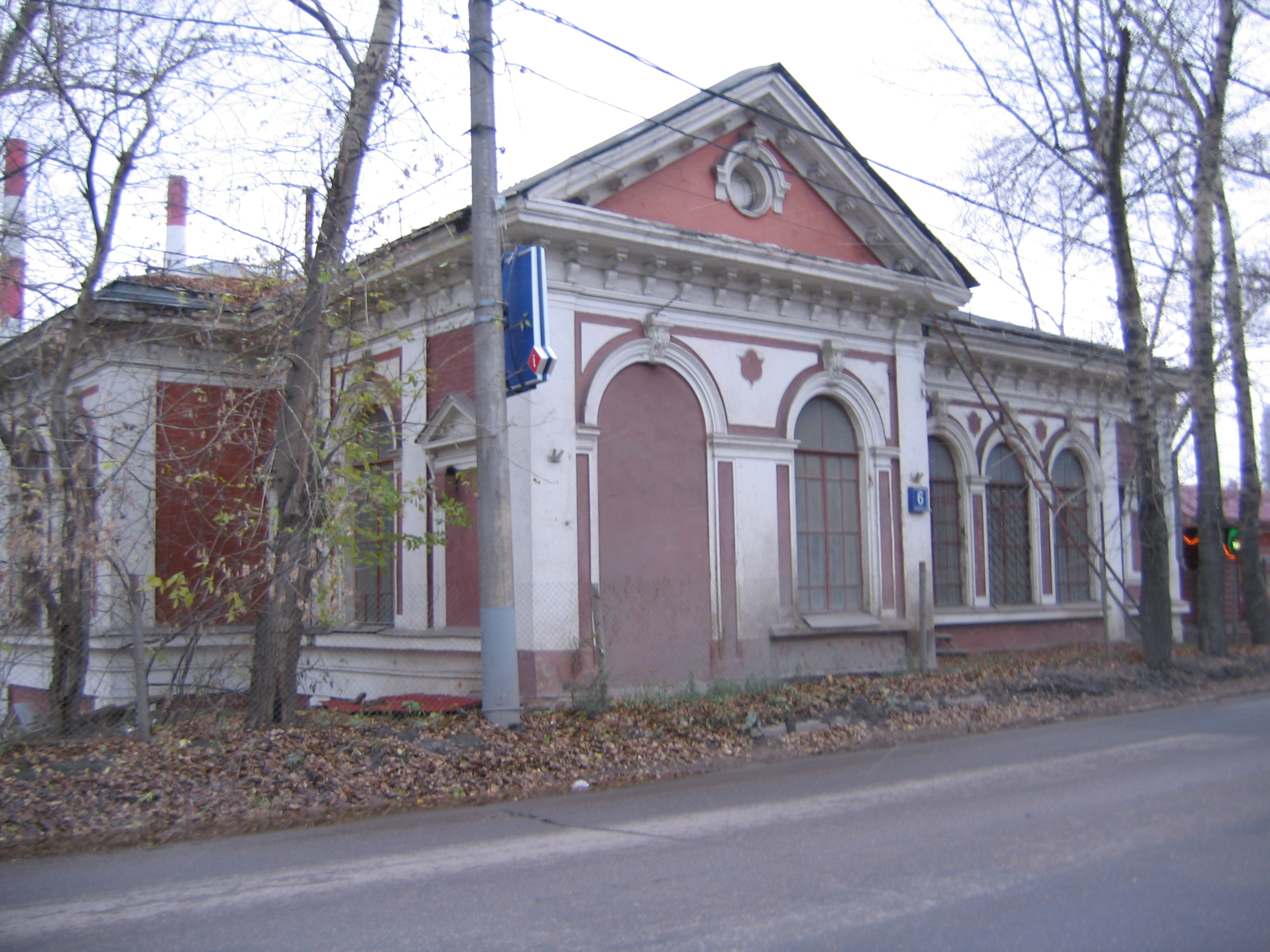 Kanatchikovo railway station in Moscow, Russia